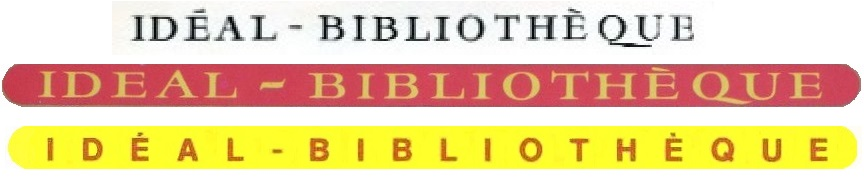 Les 3 bandeaux de la collection « Idéal-Bibliothèque »